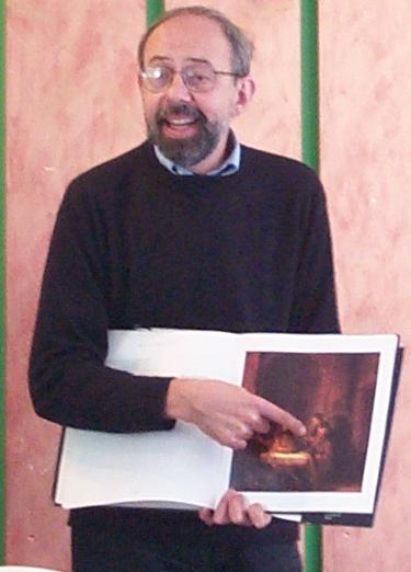 John Muddiman explaining The Supper at Emmaus by Rembrandt van Rijn. Photograph taken at Aston Tirrold United Reformed Church, Oxfordshire, England, 2006-04-01. Copyright © 2006 Kaihsu Tai.